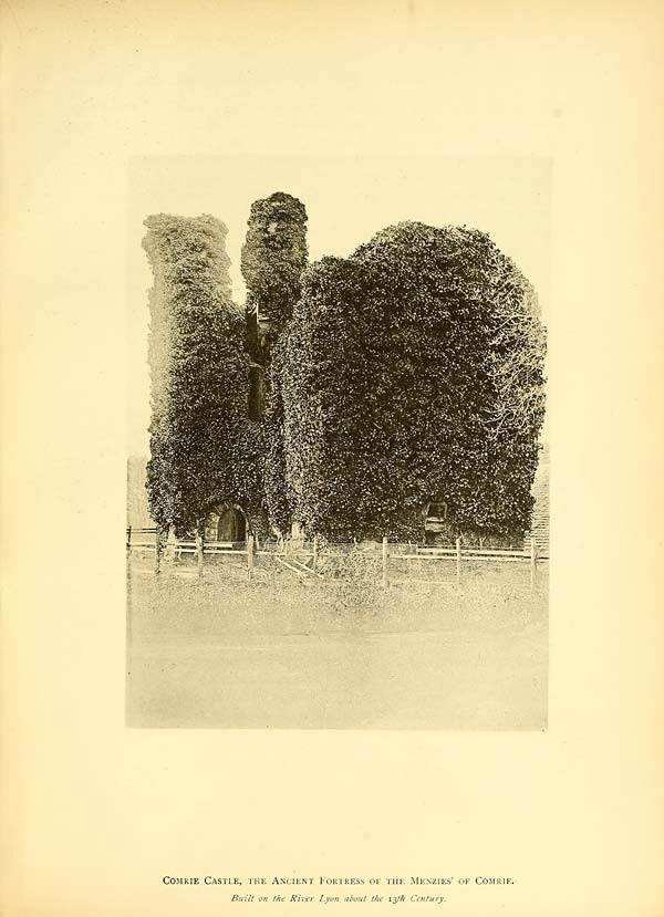 Comrie Castle, the Ancient Fortress of the Menzies' of Comrie. Built on the River Lyon about the 13th Century.